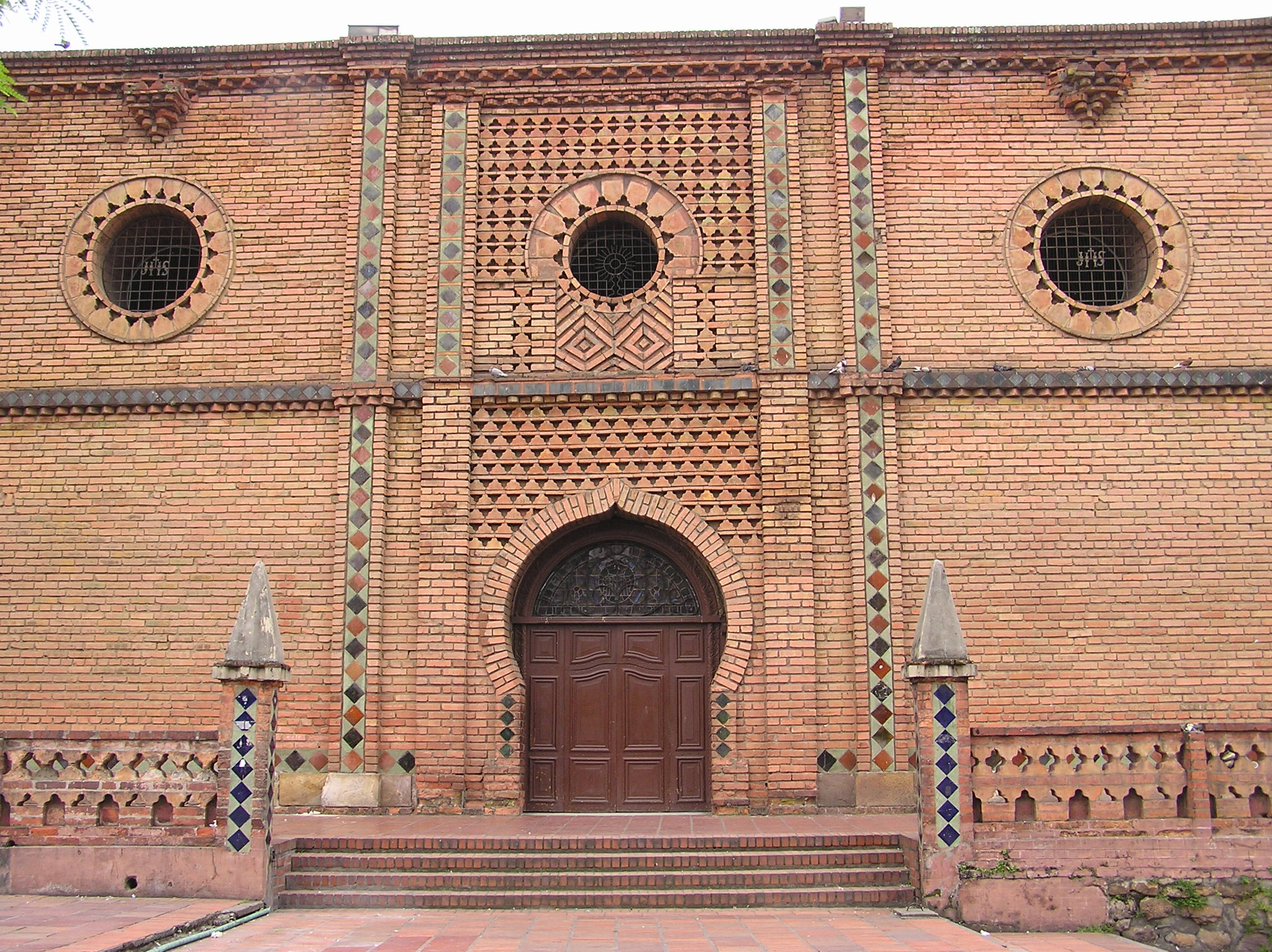 Puerta lateral Mudejar, Iglesia de San Francísco, Cali, Colombia